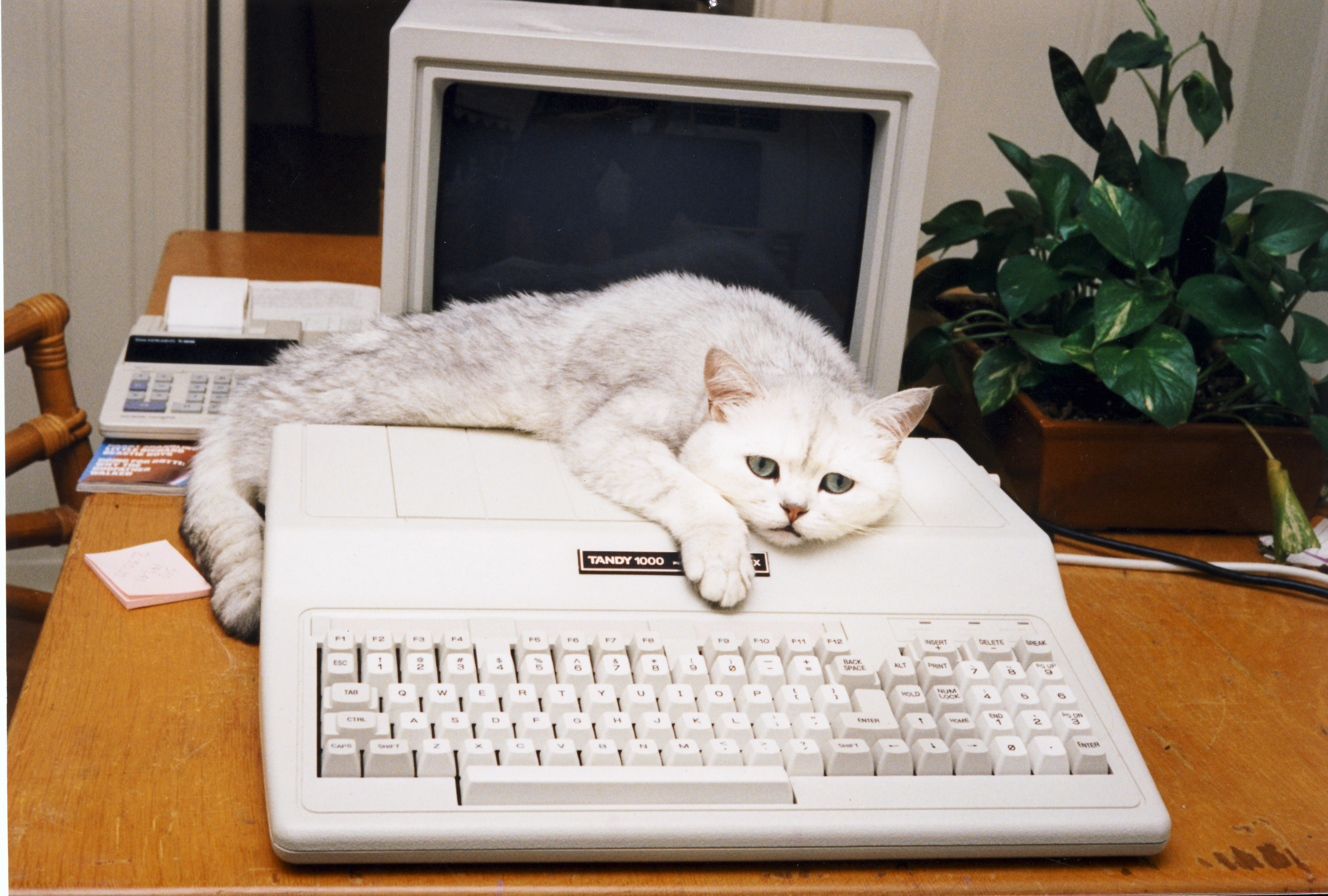 Sabu with his Tandy 1000 computer.